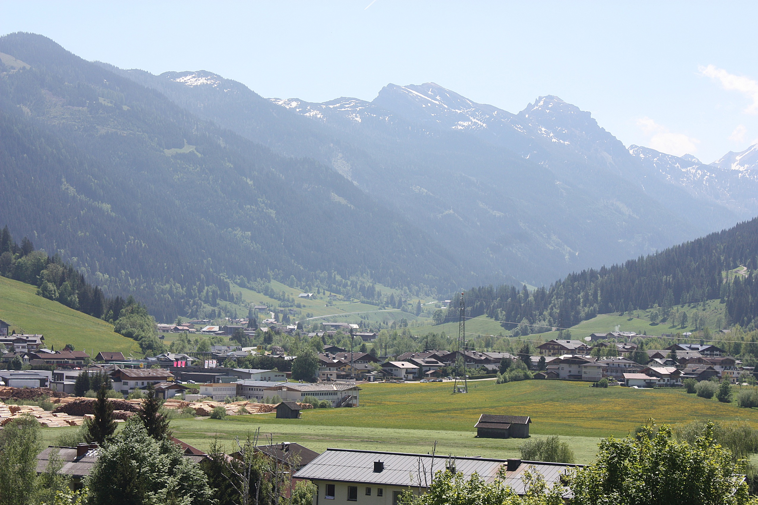 Radstadt, view to the valley of the Pongauer Taurauch